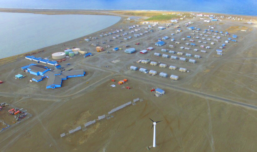 Gambell is one of two Native Villages located on St. Laurence Island, in the middle of the Bering Sea.